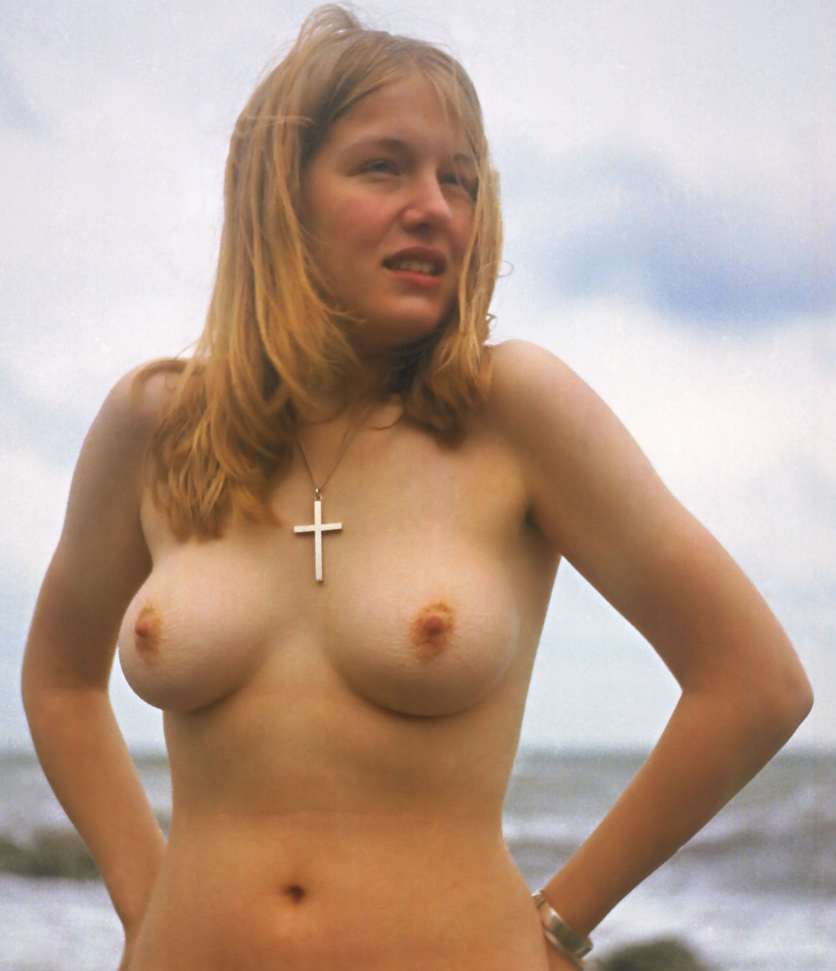 Model Carole on a cold day on a secluded beach at East Devon, UK. Cropped.